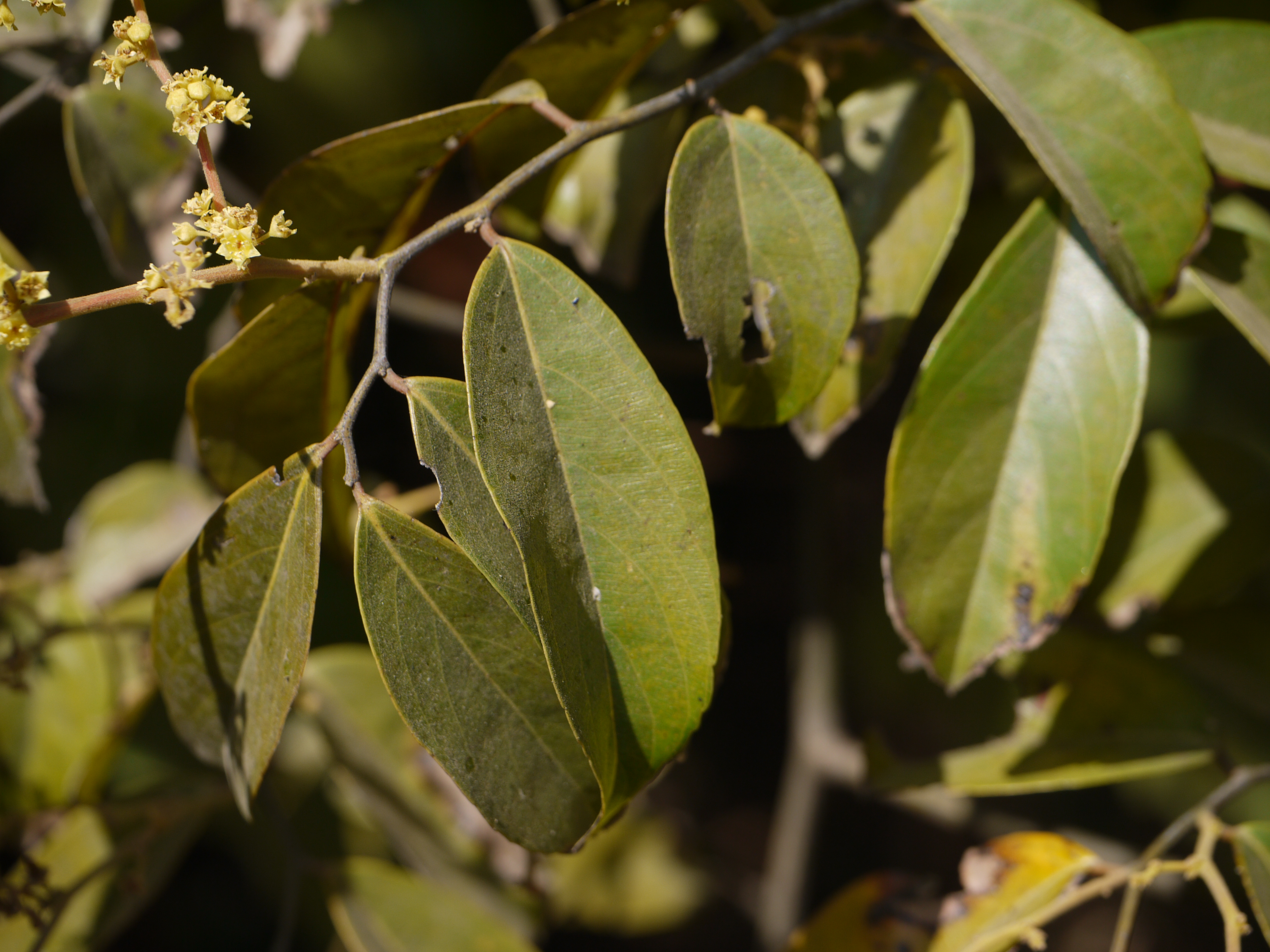 Rhamnaceae (buckthorn family) » Ventilago maderaspatana ¿ ven-tee-LAH-goh? -- from Latin ventilo (exposed to wind), ago (drive away) ¿ mah-deh-ras-PATH-en-ah ? -- of or from Madras (Madraspatnam) commonly known as: red creeper • Assamese: bor-kalia • Coorgi: male mythala, vembadam • Gujarati: રગતરૉહાડો ragatarohado • Hindi: केंवटी keonti, पित्ती pitti • Kannada: haruge, kanvel • Khasi: mei bynoh • Konkani: खांडवेल khamdvel • Malayalam: vempata • Marathi: खांडवेल khandvel, लोखंडी lokhandi • Oriya: ରକ୍ତପିତ୍ତା roktopitta • Sanskrit: रक्तवल्ली raktavalli • Sinhalese: yakkaduvel • Tamil: பப்பிளி pappili • Telugu: సురుగుడు surugudu Native to: India, Myanmar, Indonesia References: Flowers of India • IndFlora • eFlora